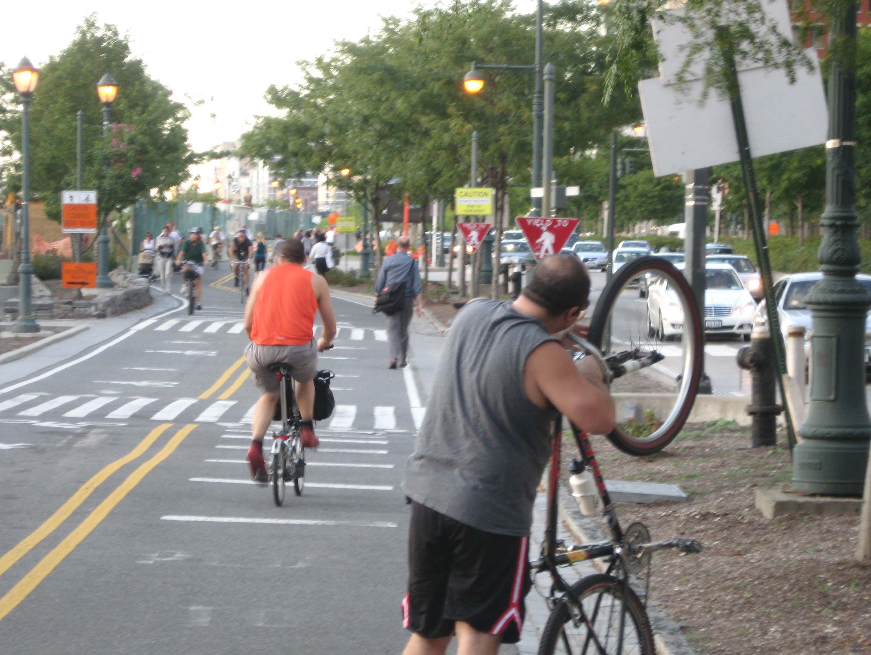 Looking north, full zoomed, on a busy evening on Manhattan Waterfront Greenway. Better a blurred pic of a busy bikeway than a clear one of an empty one.